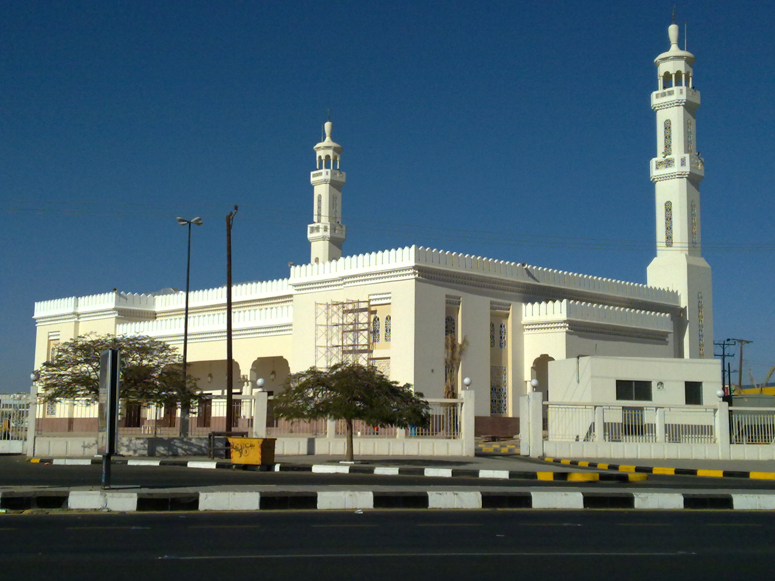 Mosque called Custodian of the Two Holy Mosques in Khamis Mushayt